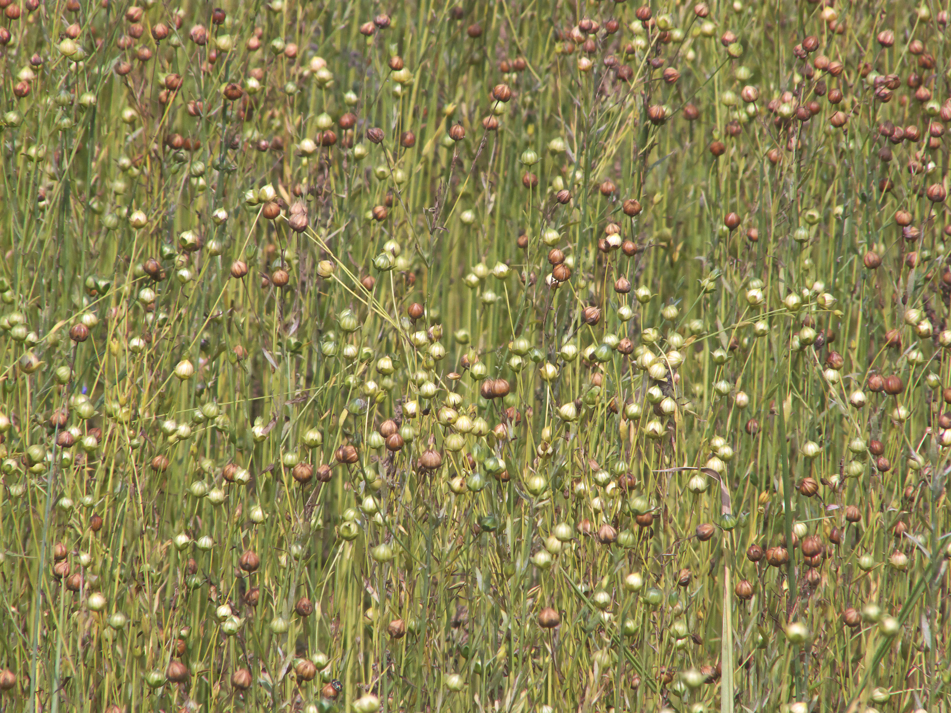 Linum usitatissimum